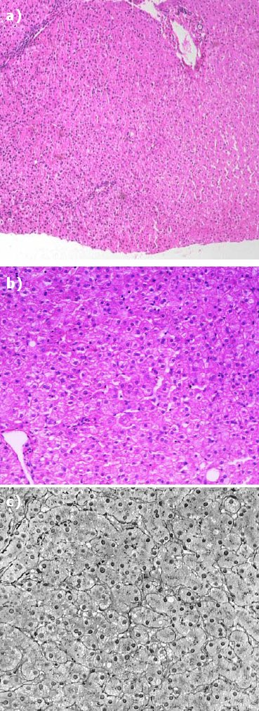 Liver tissue stained by (a) hematoxylin/eosin (b) paS reaction (c) Ag